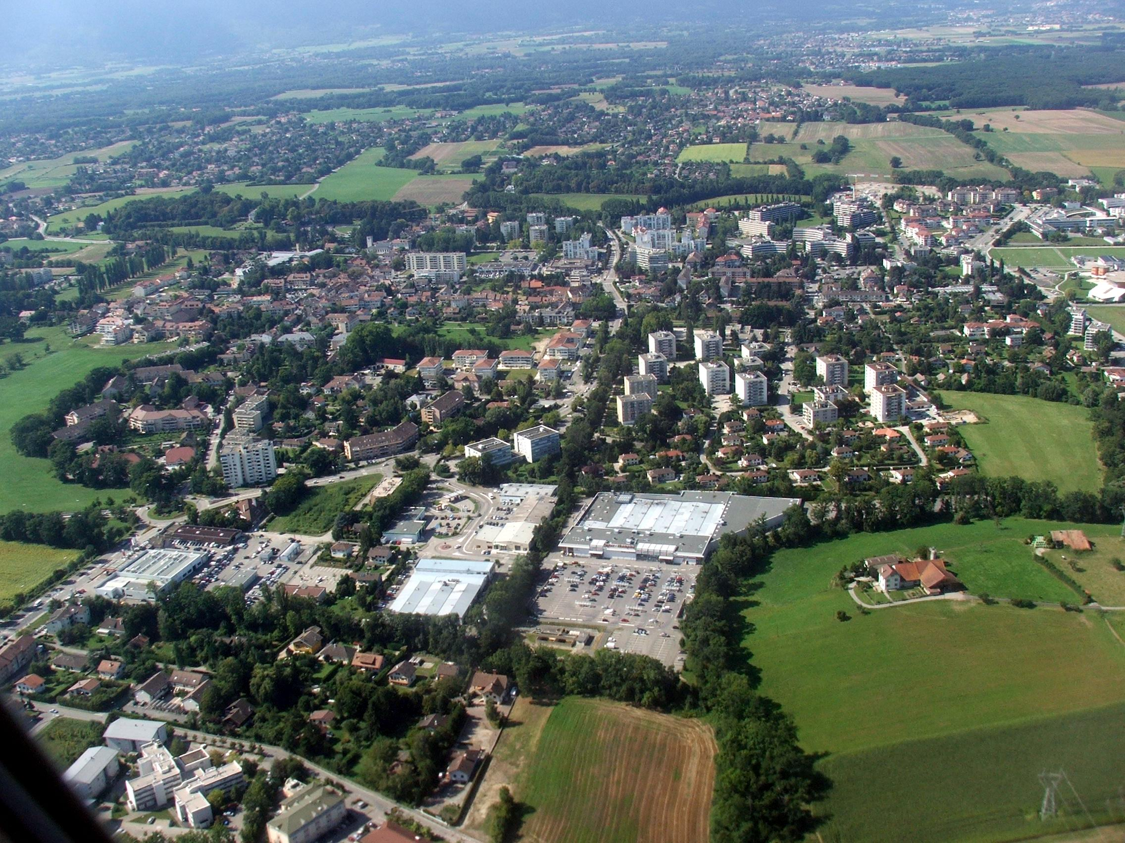 Ferney-Voltaire - view from the plane leaving Geneva airport - Ain, France.